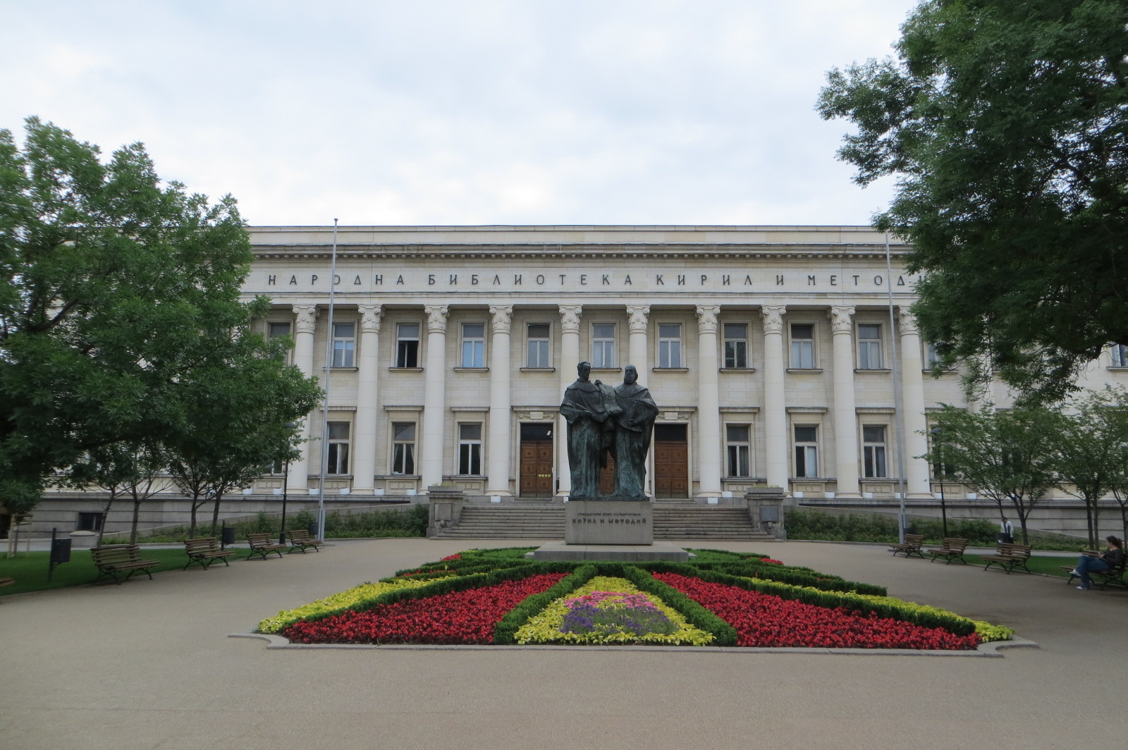 National Library, Sofia, Bulgaria